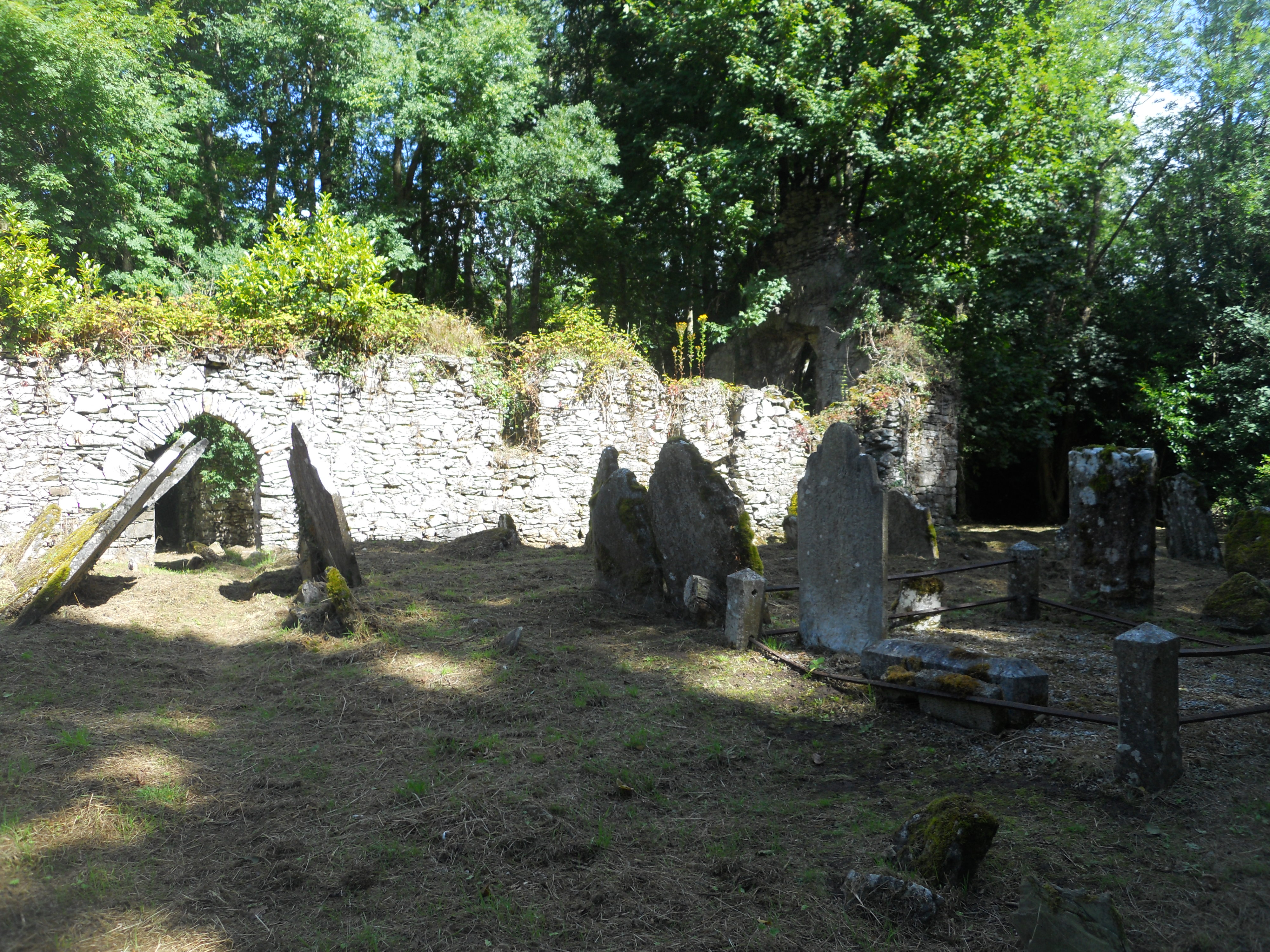 The ruins of Ballyoughtera Church (built 1549, destroyed 1641) on the grounds of Castlemartyr House, Imokilly, Cork, Ireland.